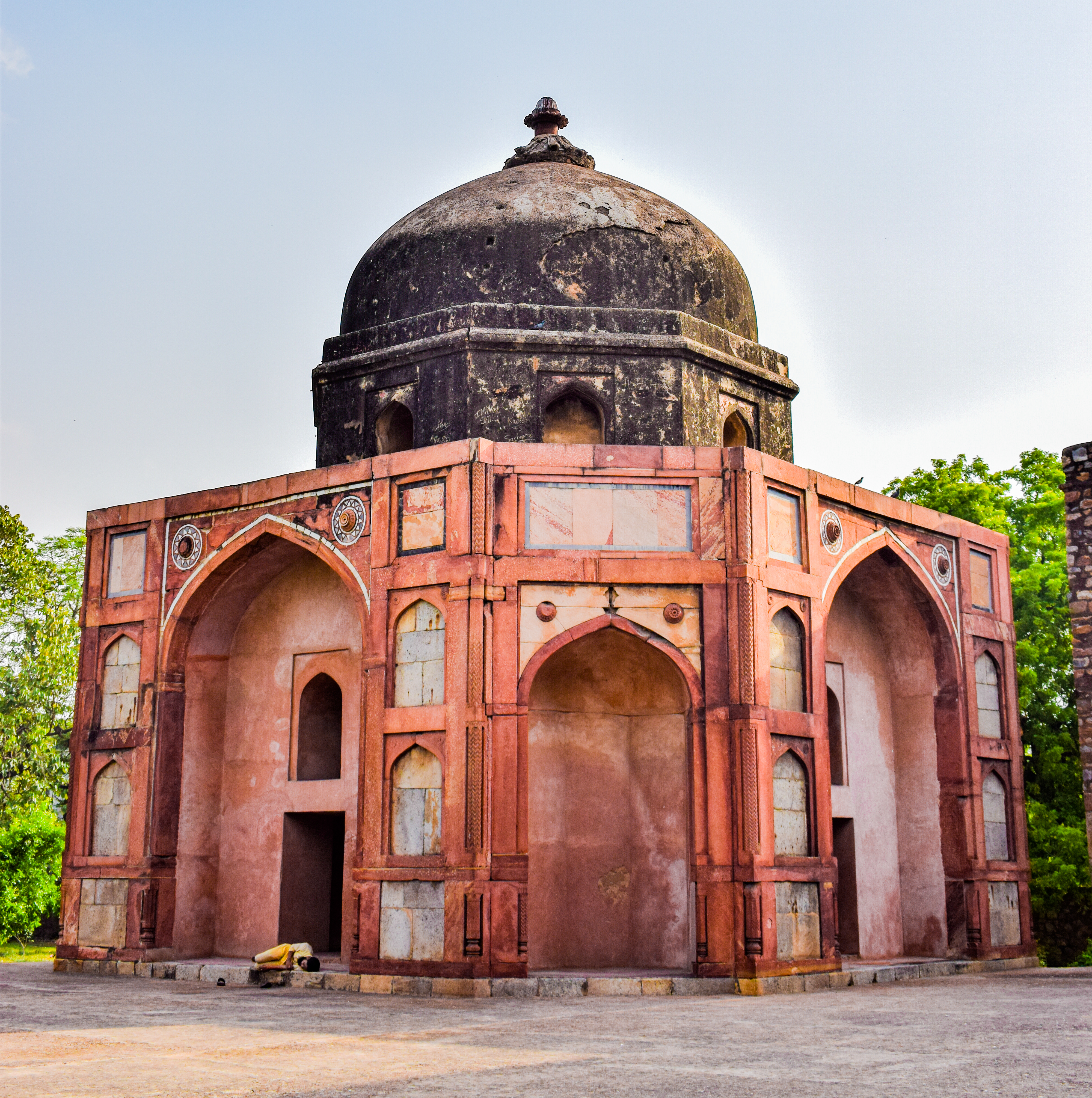 The Afsah-walla-ki-masjid situated outside the west gate of humayun's tomb, delhi